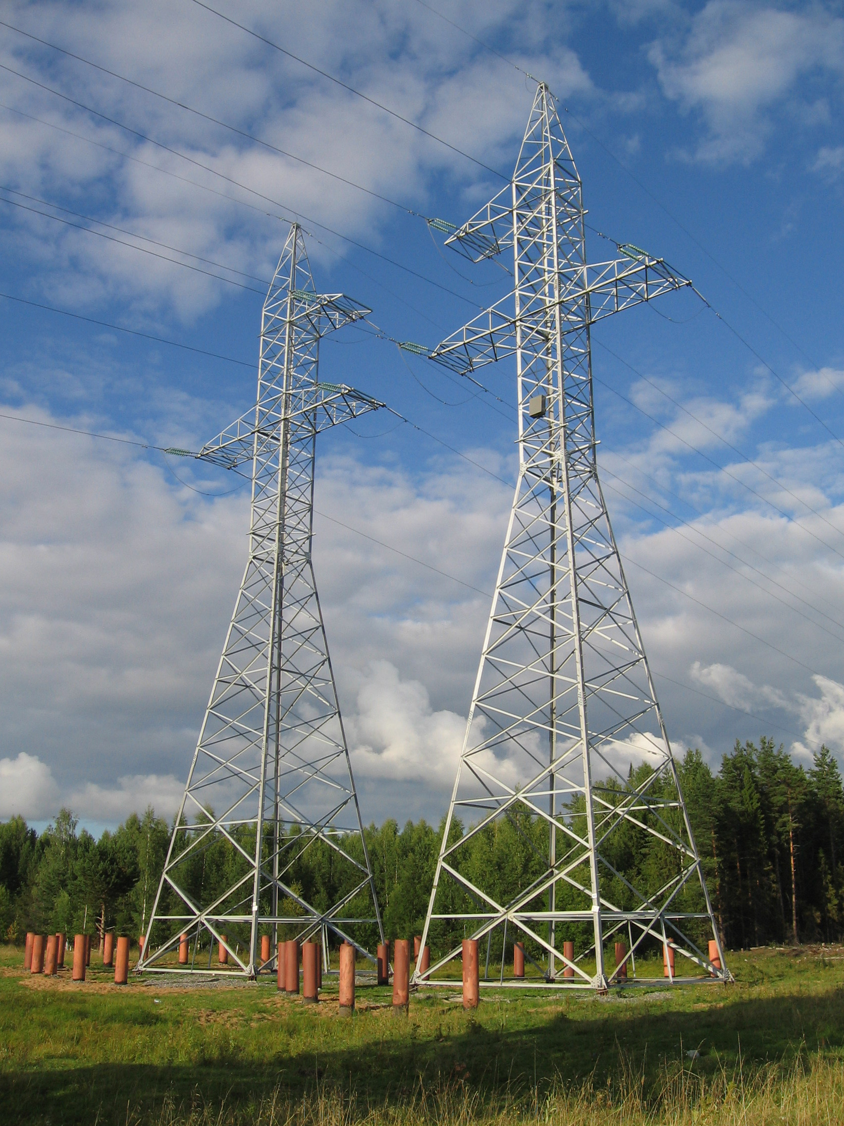 Lattice steel pylons in Russia